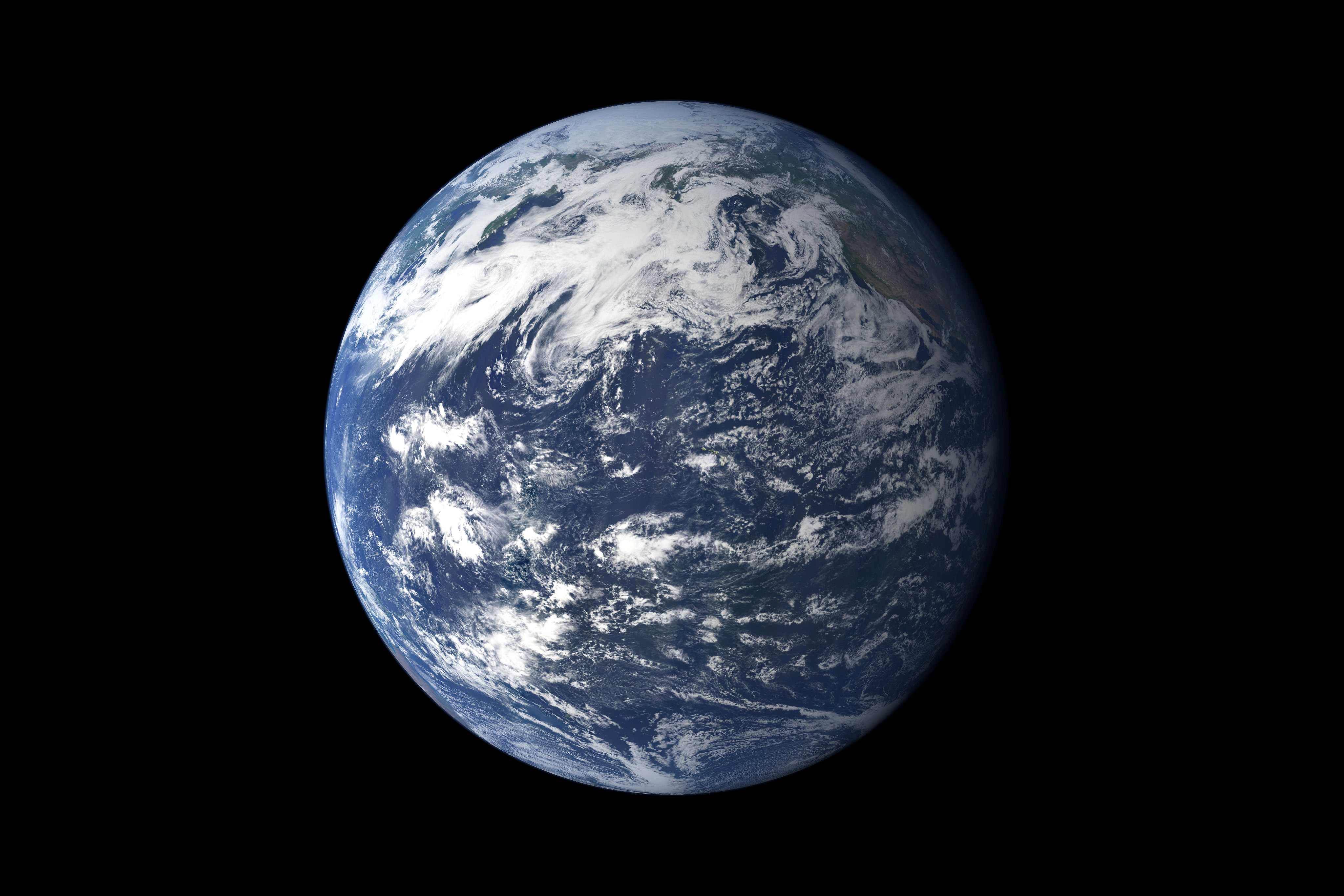 Viewed from space, the most striking feature of our planet is the water. In both liquid and frozen form, it covers 75% of the Earth’s surface. It fills the sky with clouds. Water is practically everywhere on Earth, from inside the rocky crust to inside our cells. This detailed, photo-like view of Earth is based largely on observations from the Moderate Resolution Imaging Spectroradiometer (MODIS) on NASA’s Terra satellite. It is one of many images of our watery world featured in a new story examining water in all of its forms and functions. Here is an excerpt: “In all, the Earth’s water content is about 1.39 billion cubic kilometers (331 million cubic miles), with the bulk of it, about 96.5%, being in the global oceans. As for the rest, approximately 1.7% is stored in the polar icecaps, glaciers, and permanent snow, and another 1.7% is stored in groundwater, lakes, rivers, streams, and soil. Only a thousandth of 1% of the water on Earth exists as water vapor in the atmosphere. Despite its small amount, this water vapor has a huge influence on the planet. Water vapor is a powerful greenhouse gas, and it is a major driver of the Earth’s weather and climate as it travels around the globe, transporting heat with it. For human needs, the amount of freshwater for drinking and agriculture is particularly important. Freshwater exists in lakes, rivers, groundwater, and frozen as snow and ice. Estimates of groundwater are particularly difficult to make, and they vary widely. Groundwater may constitute anywhere from approximately 22 to 30% of fresh water, with ice accounting for most of the remaining 78 to 70%.”